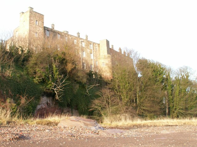 Wemyss Castle. Wemyss Castle built around 1420 and reputedly where Queen Mary first met Lord Darnley. Restored in the 1950's it is once more a private residence.